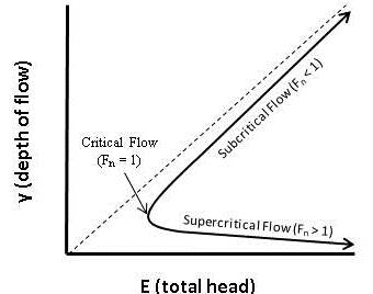 Typical E-y Diagram used in Open Channel Flow computations